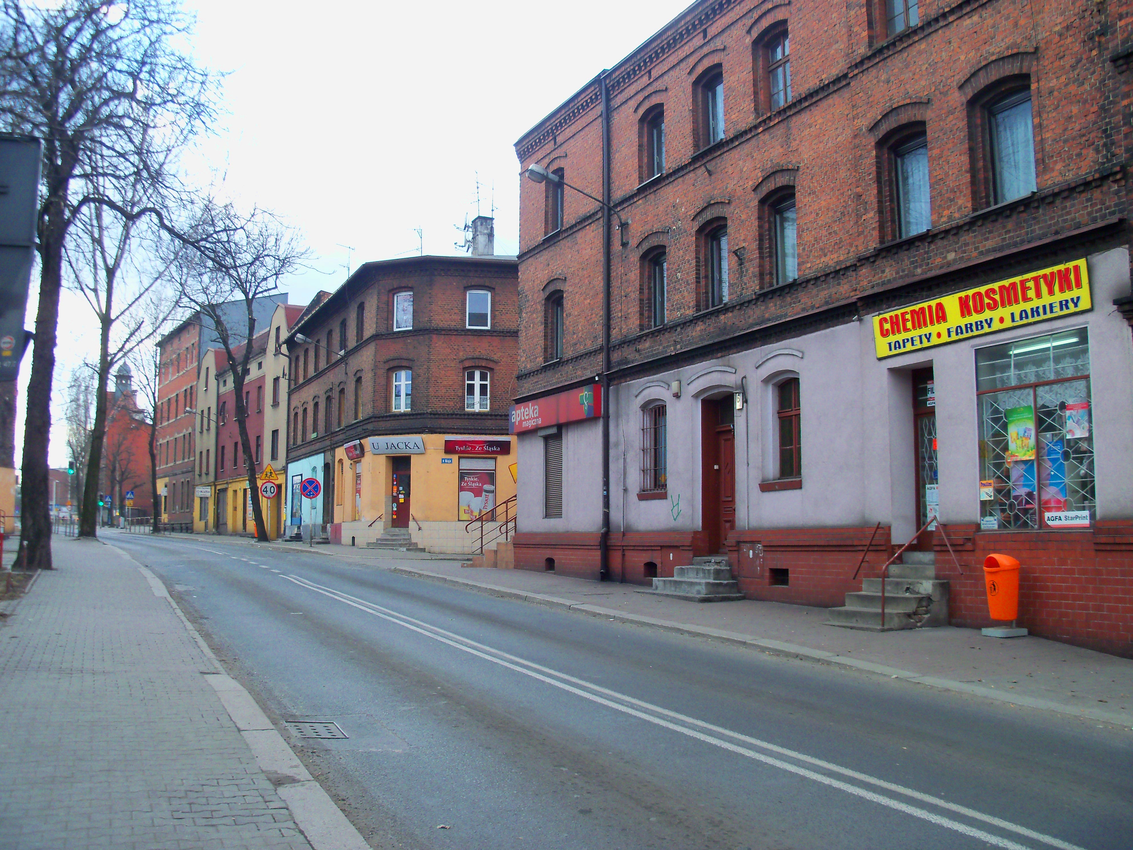 Katowice - Le Ronda Street